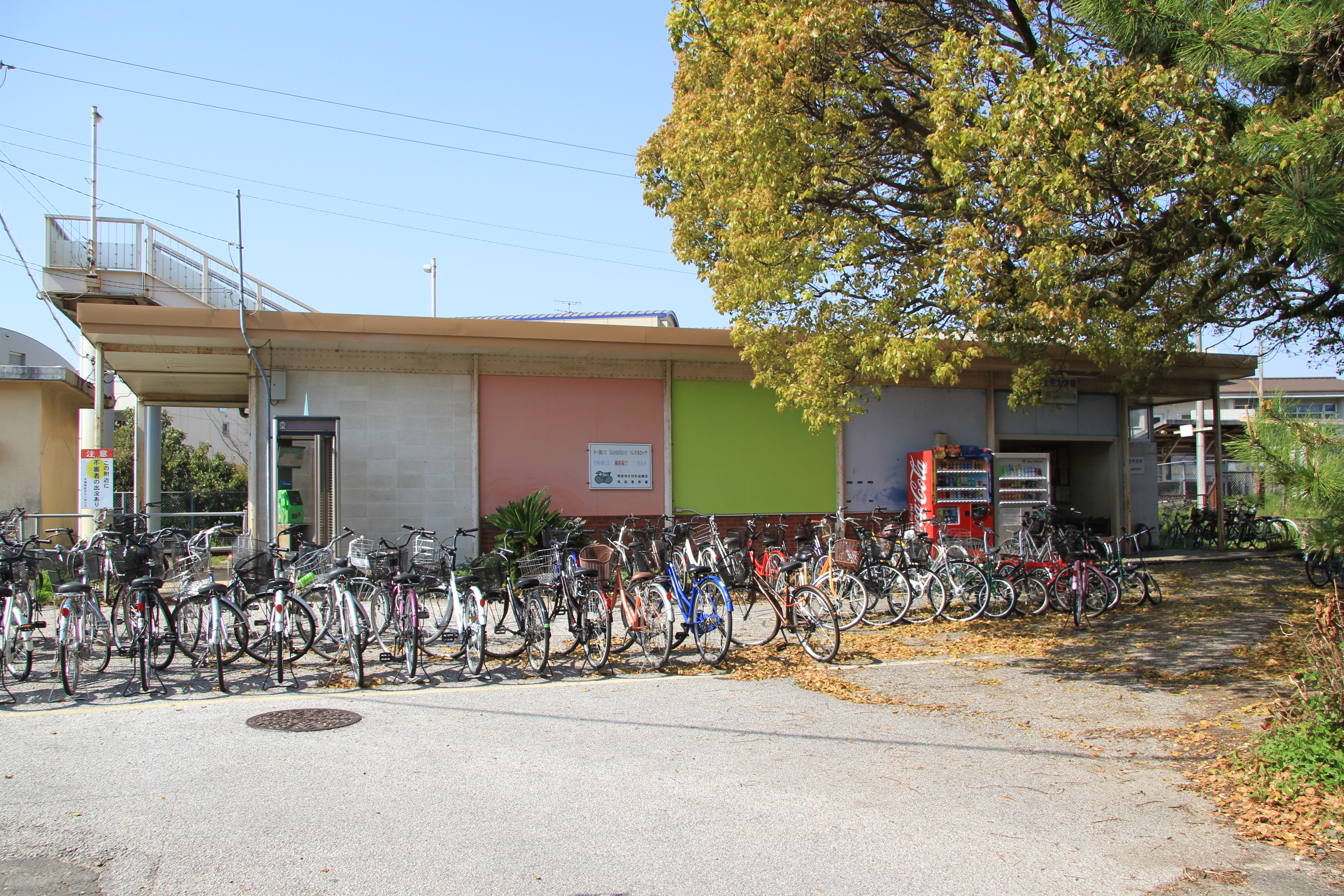 Tosa-Otsu Station